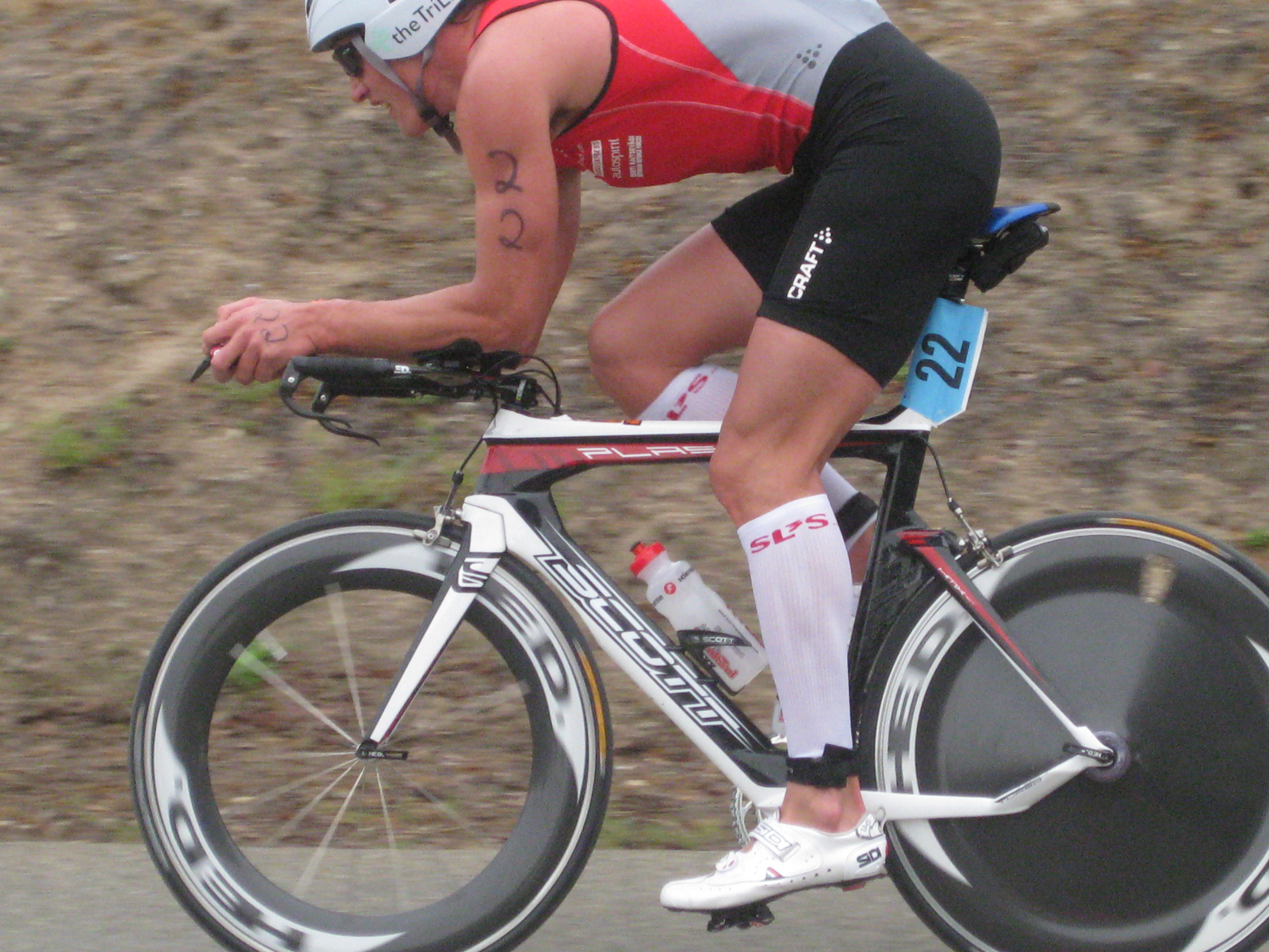 Estonian triathlete Ain-Alar Juhanson biking as #22 at the 2009 Wildflower triathlon in California.